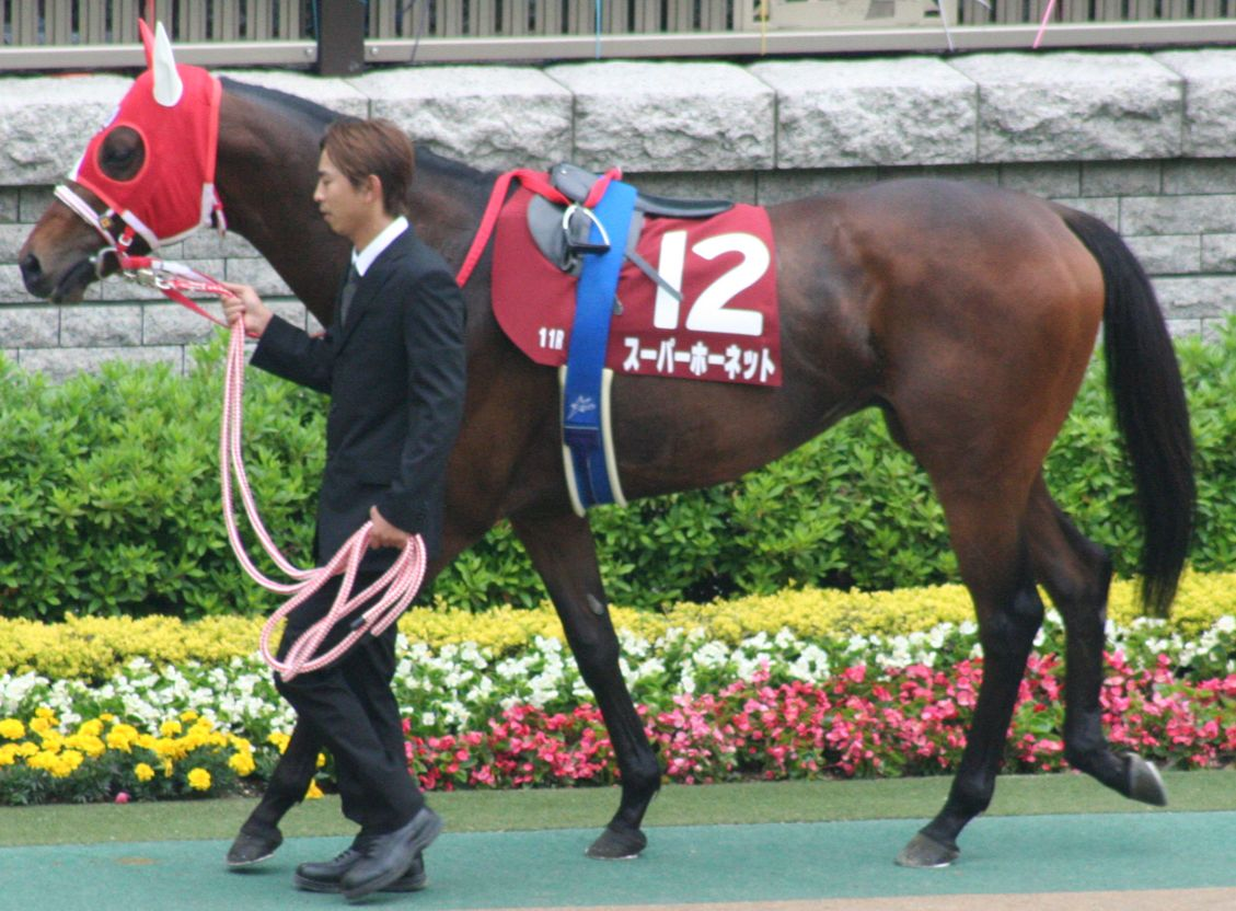 Super Hornet (horse, at Tokyo Racecourse)